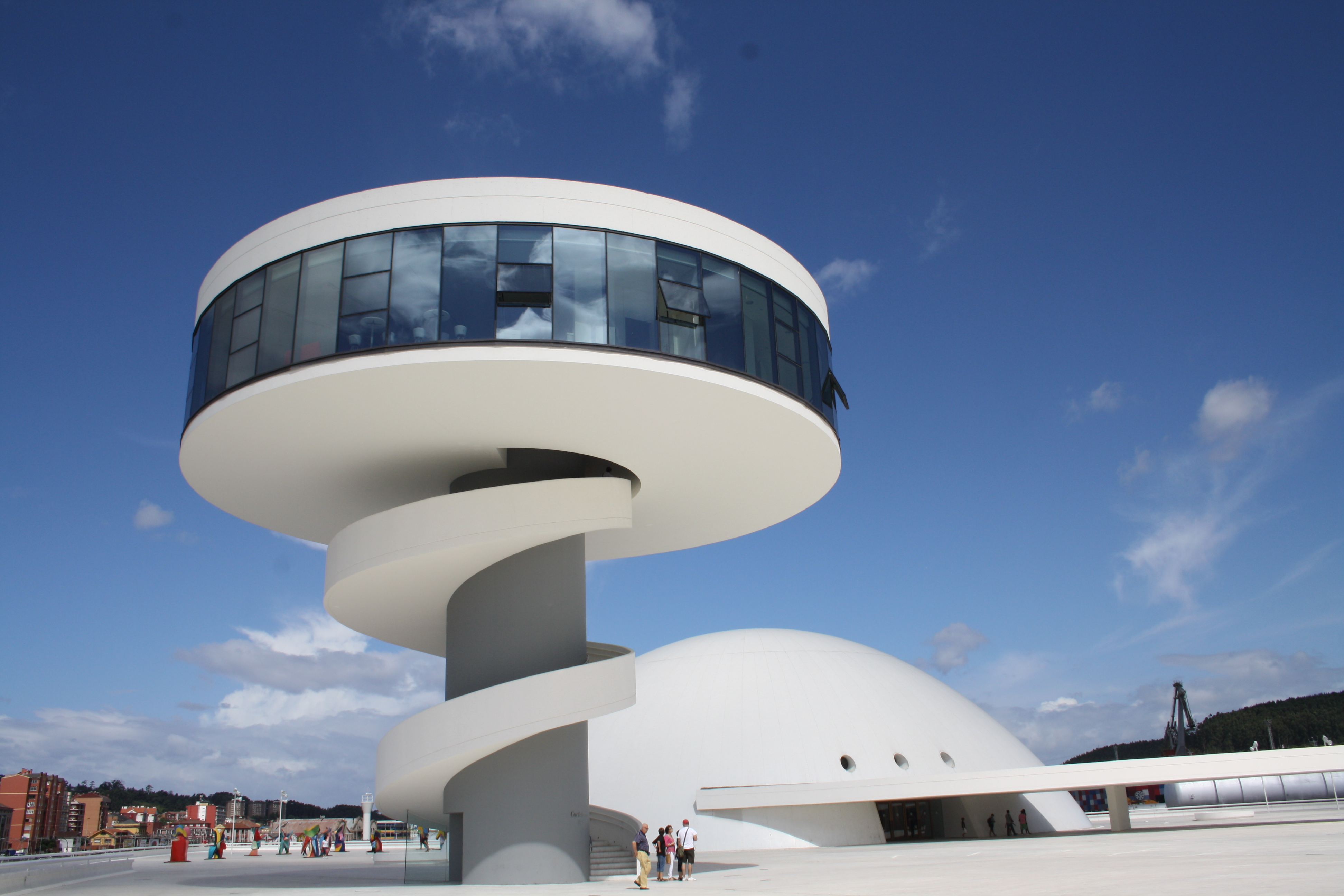 Image of the Niemeyer Cultural Center in Avilés, Asturias, Spain; architect is Brazilian Óscar Niemeyer.